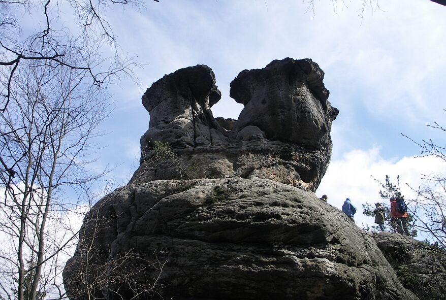 Rock formation “Drei Tische”, Saxony, Germany